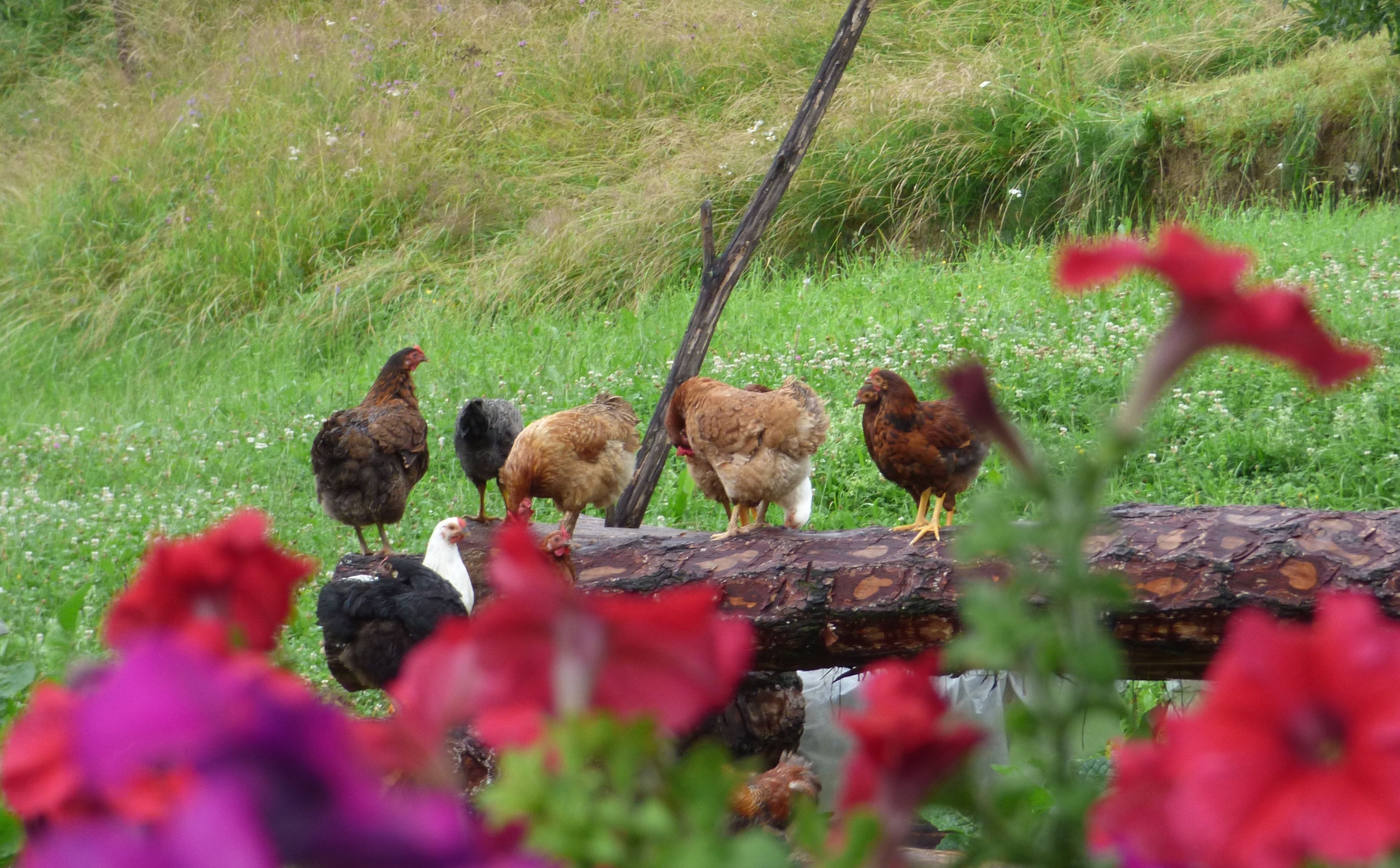 Outdoor poultry livestock of hens